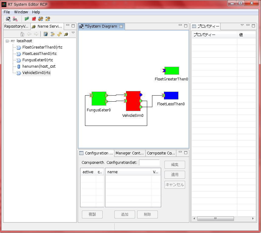 RT System Editor's Interface